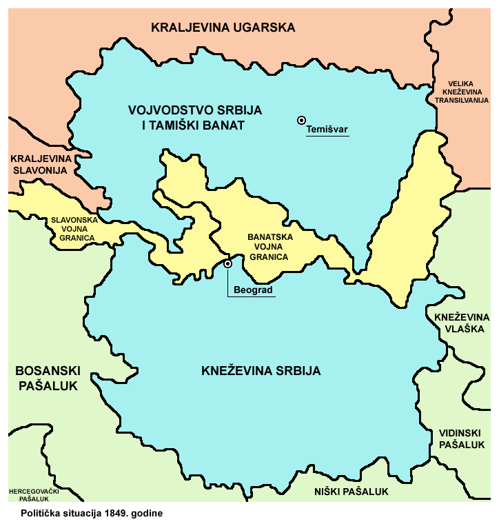 Two autonomous historical territories named Serbia: 1. Principality of Serbia within Ottoman Empire (1833-1878), and 2. Voivodeship of Serbia and Banat of Temeschwar within Austrian Empire (1849-1860) - Serbian language map version.